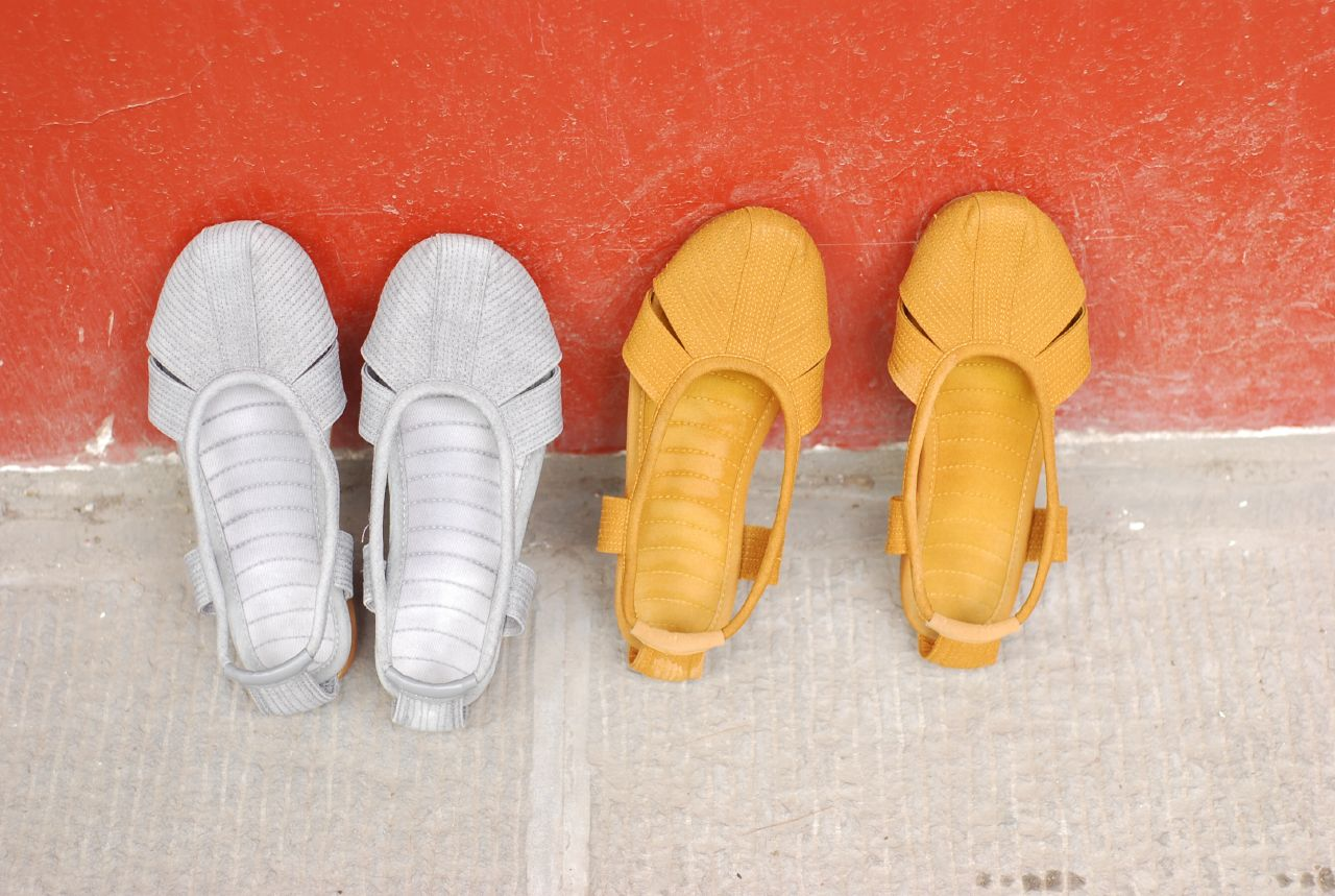 Chinese Buddhist monk shoes. Manjusri Temple (Wenshu Si), Chengdu, China.